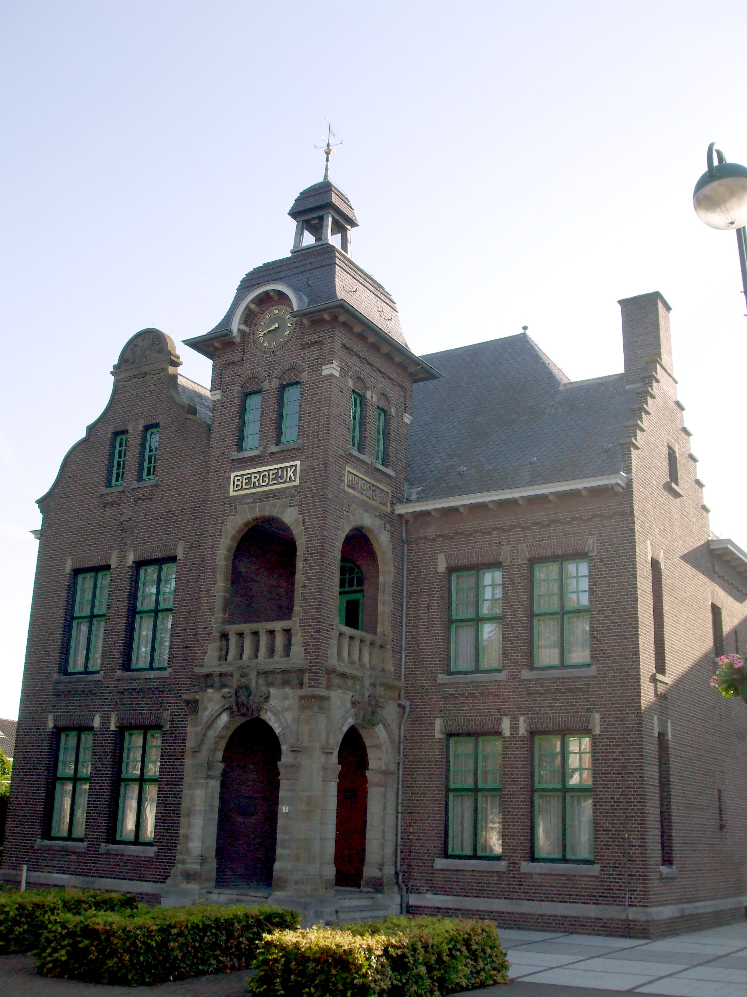 old town hall in Bergeijk